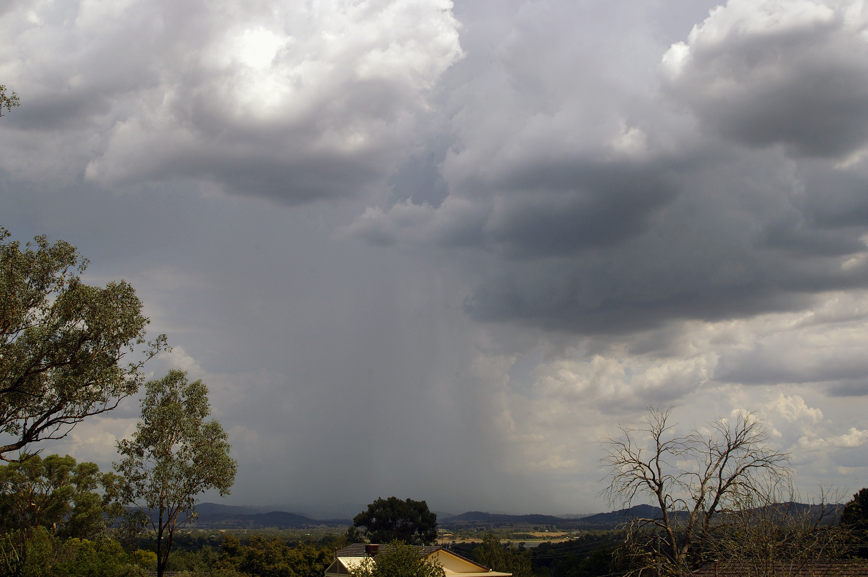 Heavy precipitation falls on the Gregadoo hills, viewed from Rocky Hill.